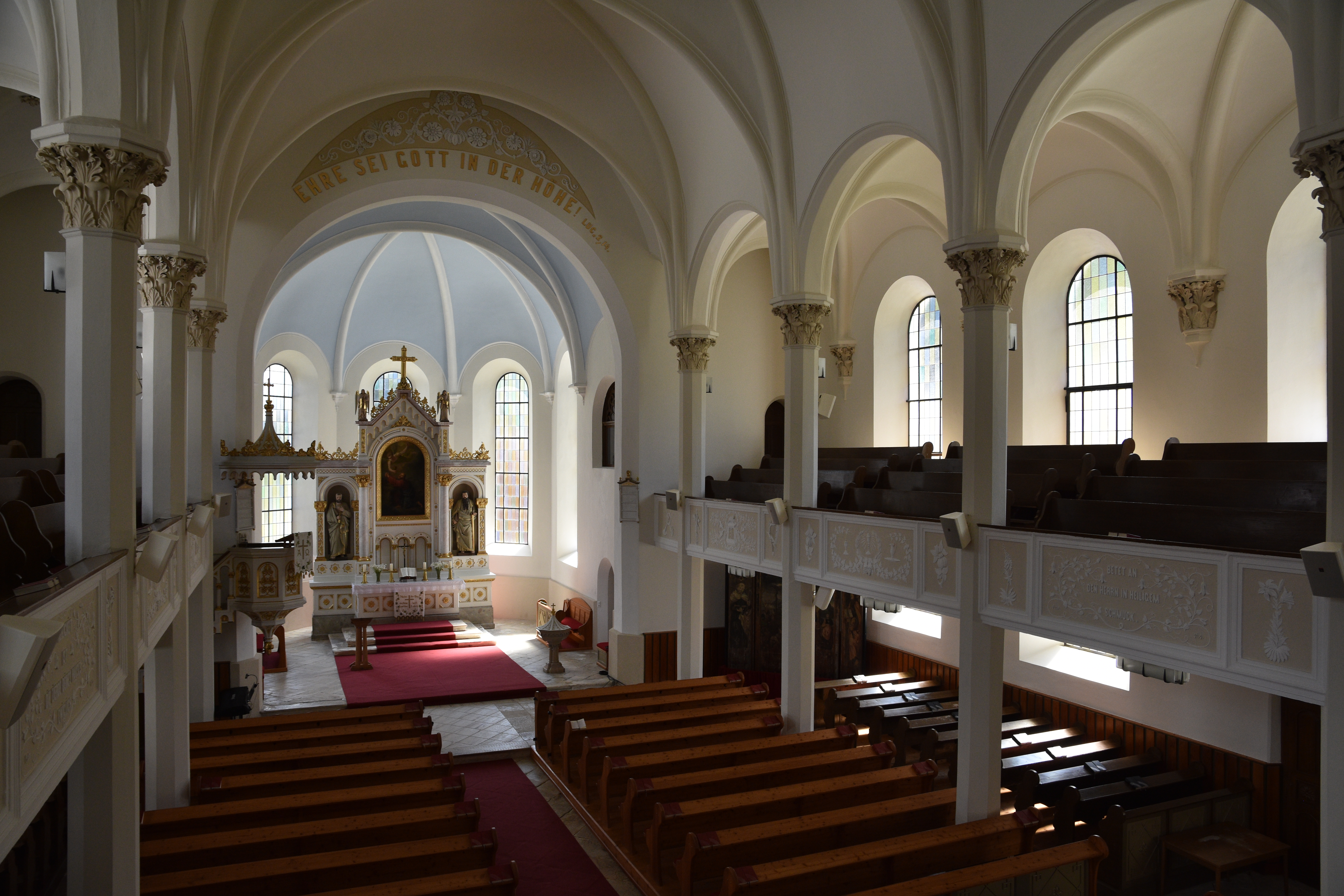 Church Saints Peter and Paul Church (Schladming) interior